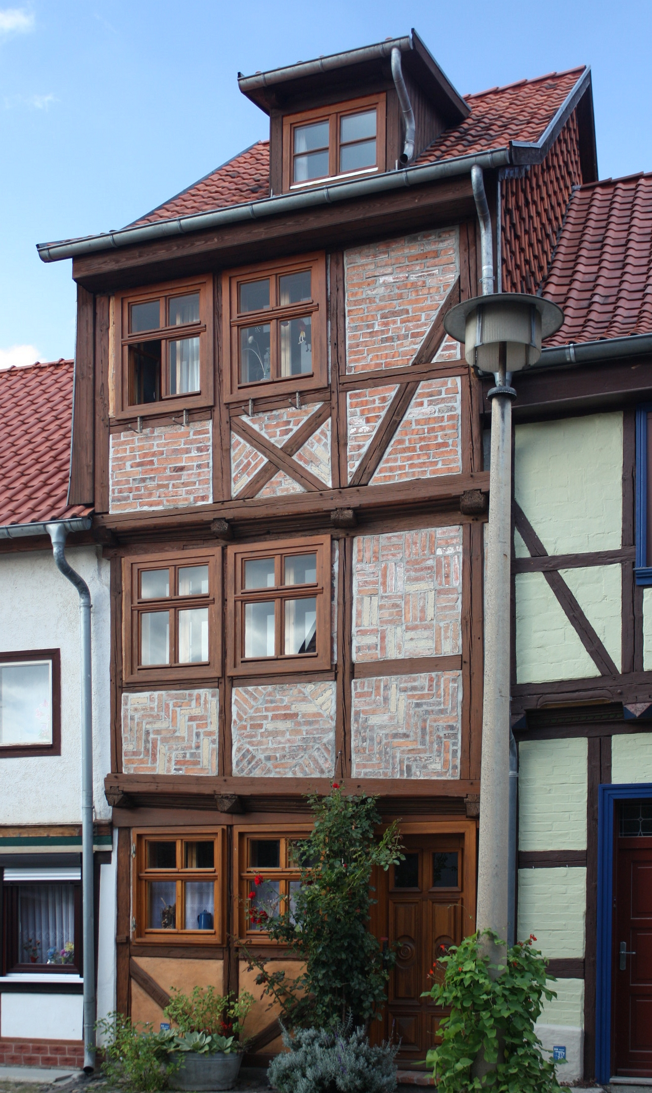 This is a photograph of an architectural monument.It is on the list of cultural monuments of Quedlinburg Augustinern 18 in Quedlinburg